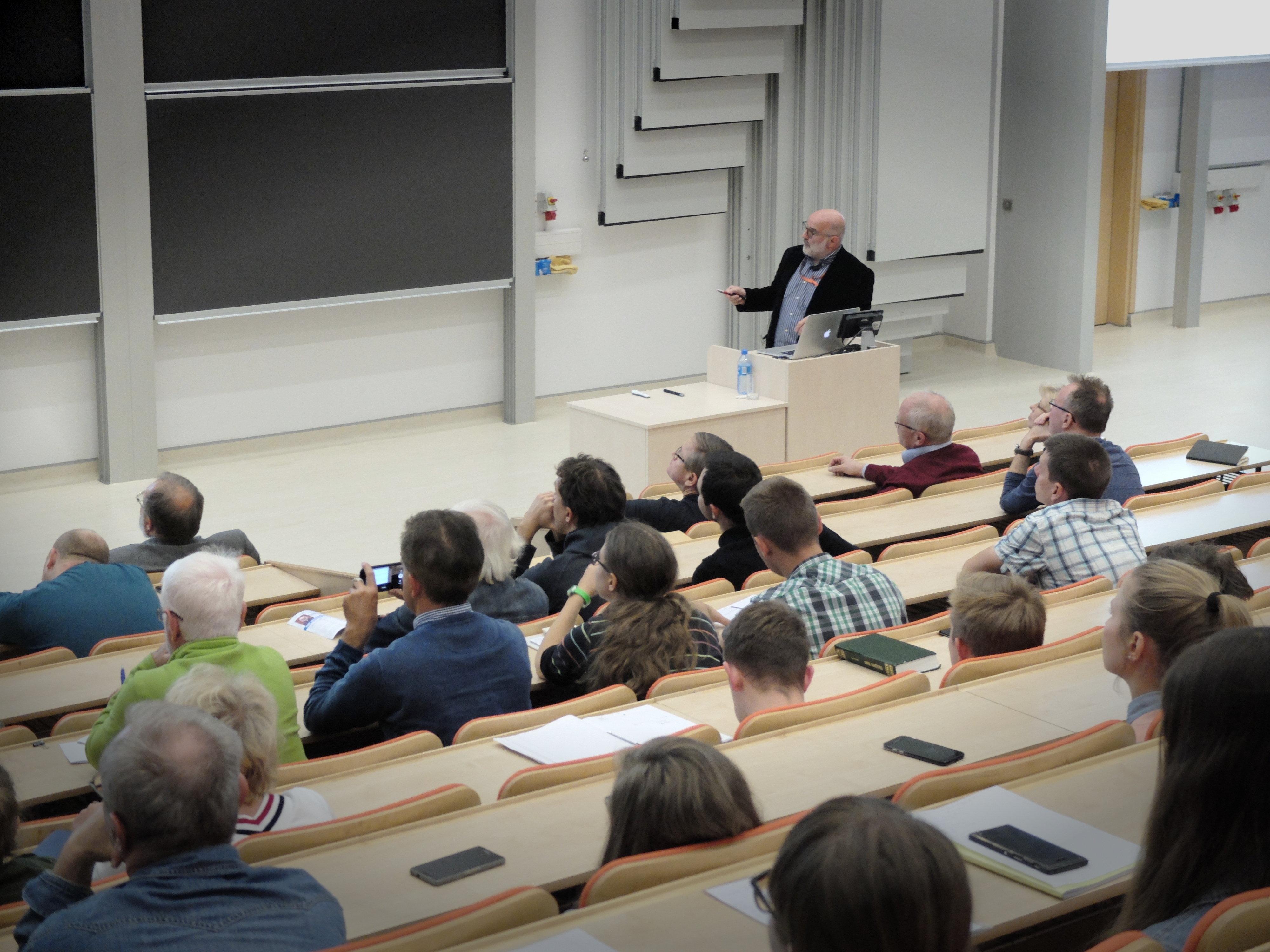 Lecture on "Cloud physics" by prof. Wojciech W. Grabowski during the Warsaw Festival of Science, at the Faculty of Physics, University of Warsaw (28.09.2017).